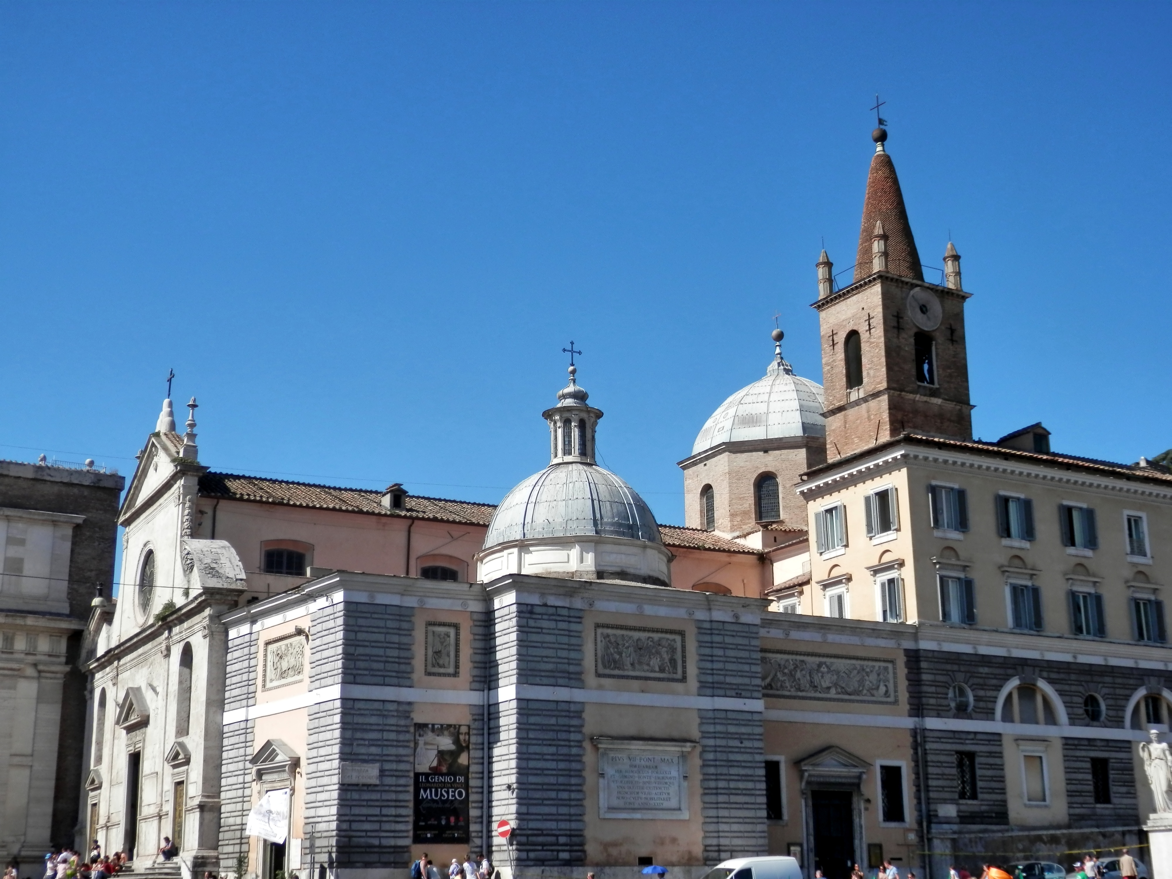 Rome, Piazza del Popolo and 'Chiesa di S. Maria del Popolo' church